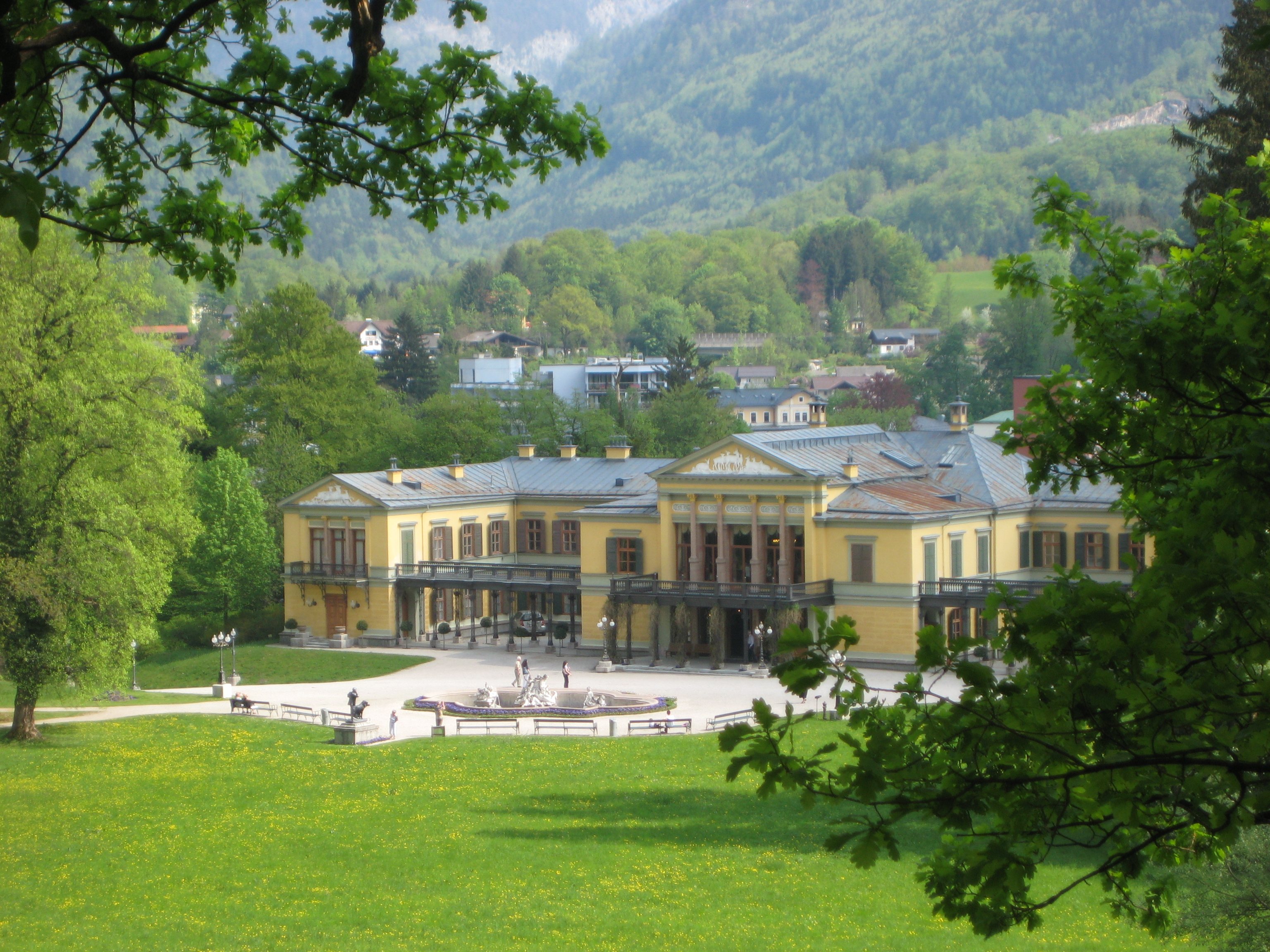 Austria, Bad Ischl, Kaiservilla